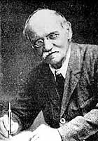 Picture of the italian anarchist Giovanni Rossi. Founder of the Cecilia Colony in South Brazil ,in the seniority.